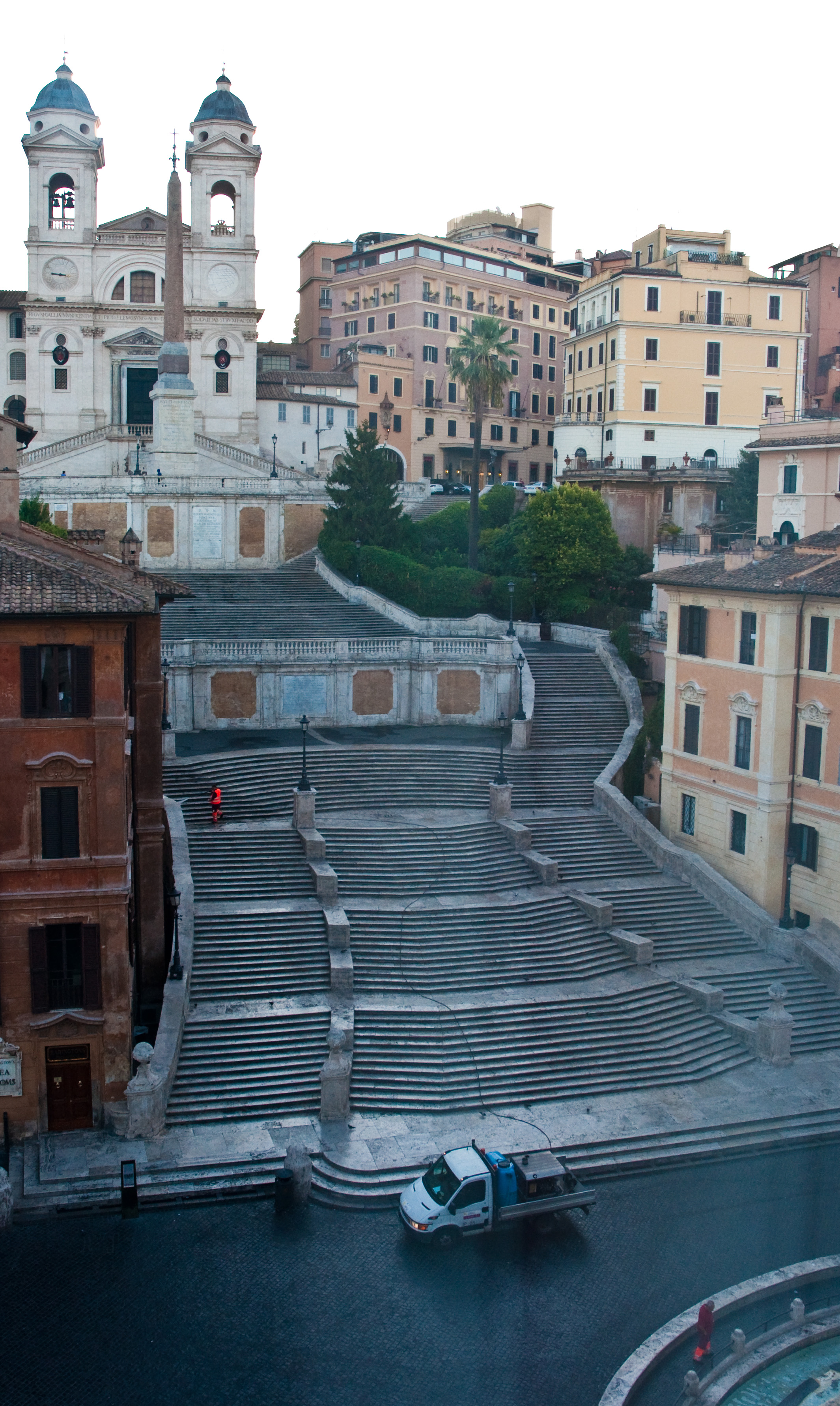 Spanish Steps at 7 am, Rome, Sept. 2011